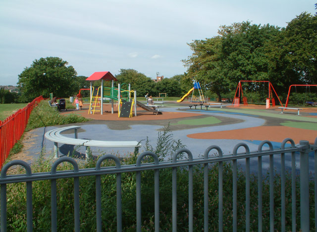 Norwood Park, SE27. Looking northwest from Salters Hill